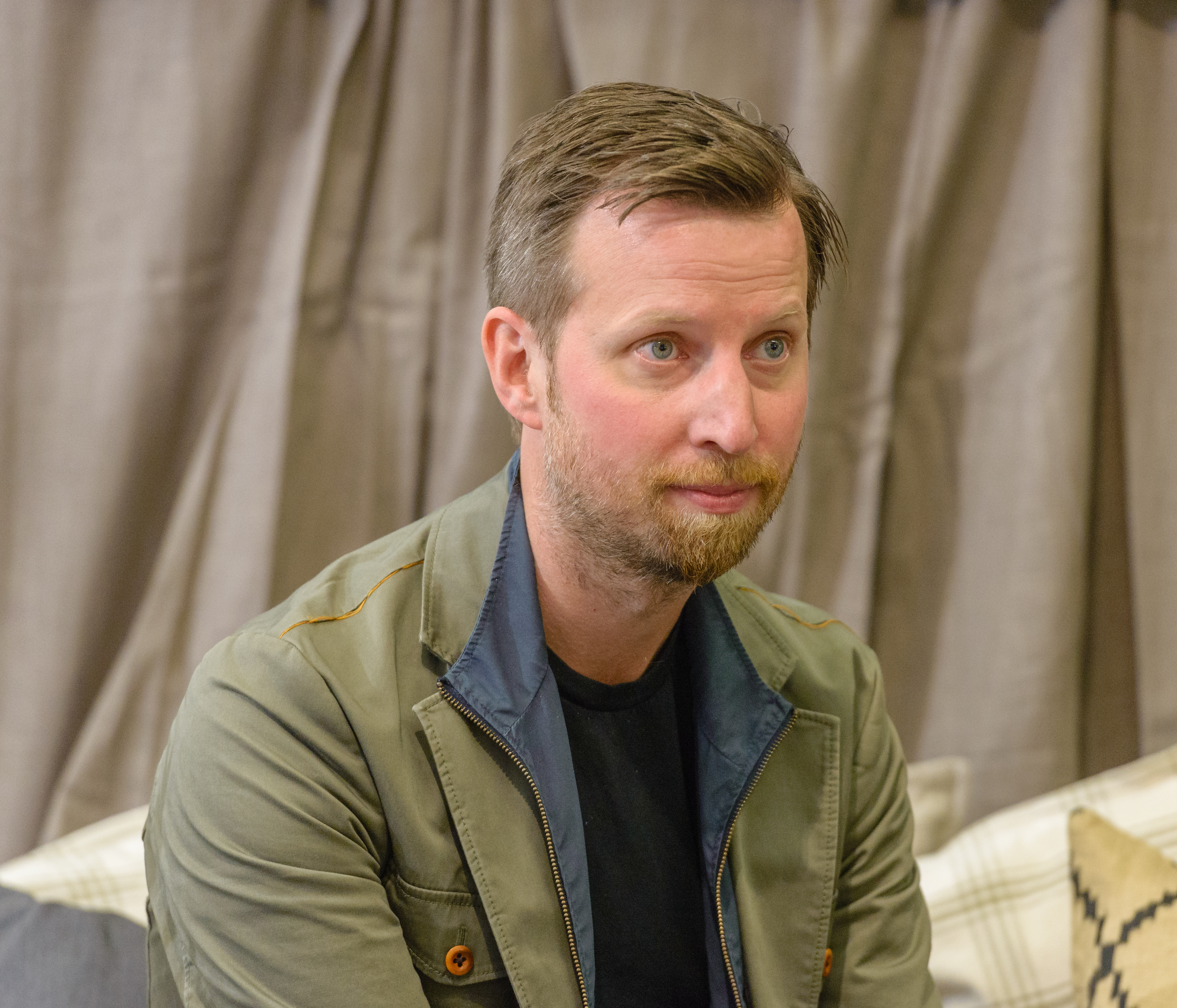 Johan Sjöberg at Göteborg Book Fair 2014.